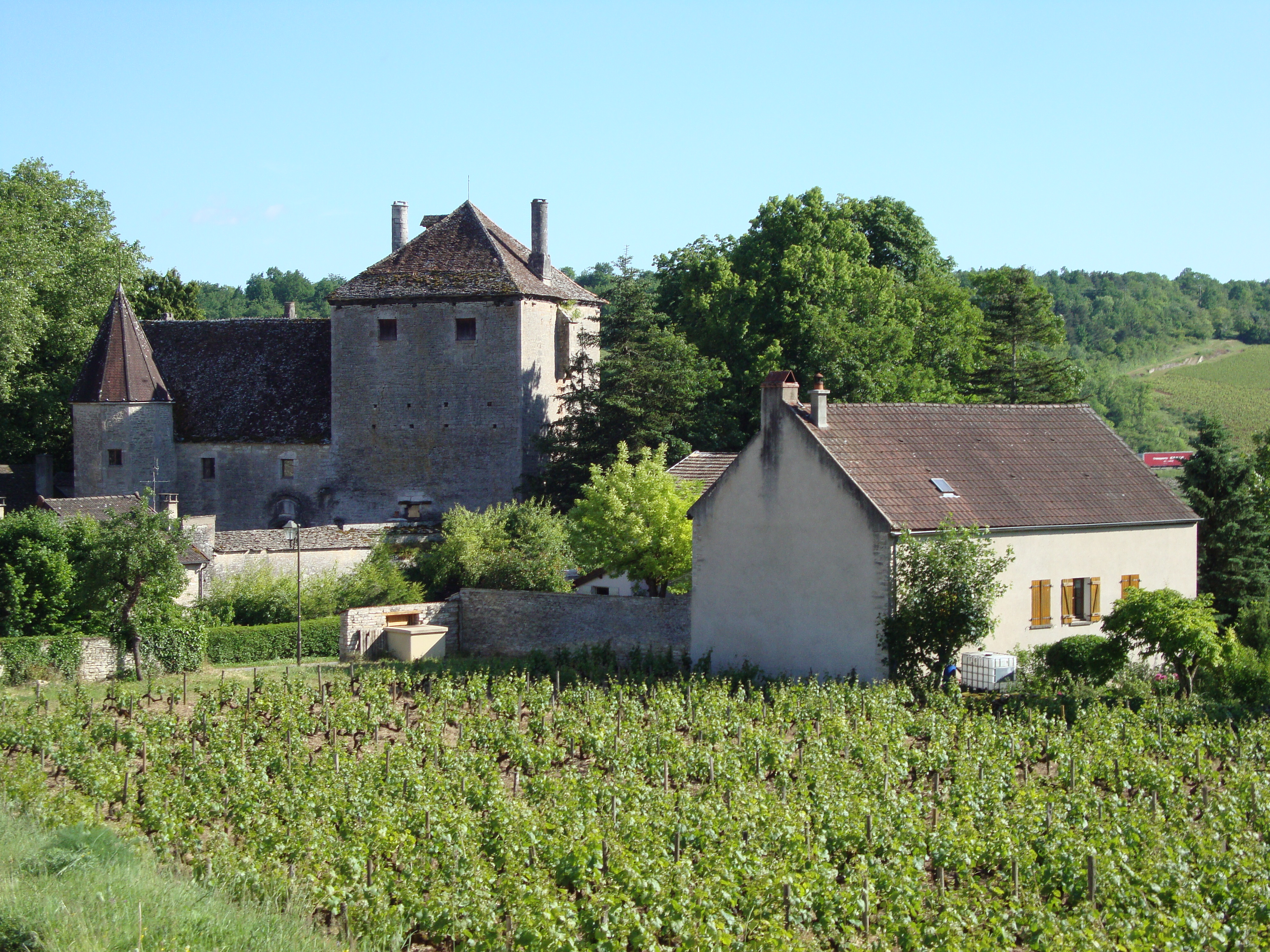 Saint-Aubin (Côte-d'Or, Fr) Château de Gamay